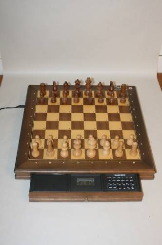 Mephisto chess computer